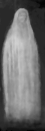 Ghost